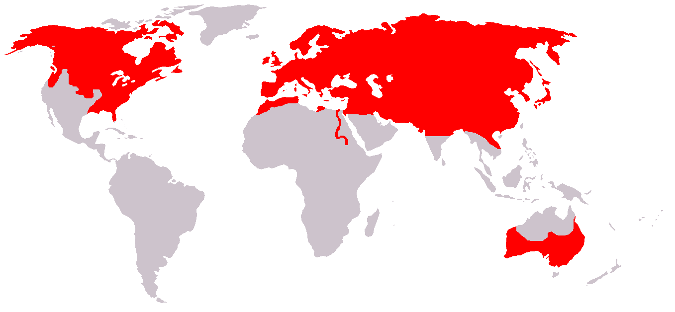 Distribution of the red fox (Vulpes vulpes).